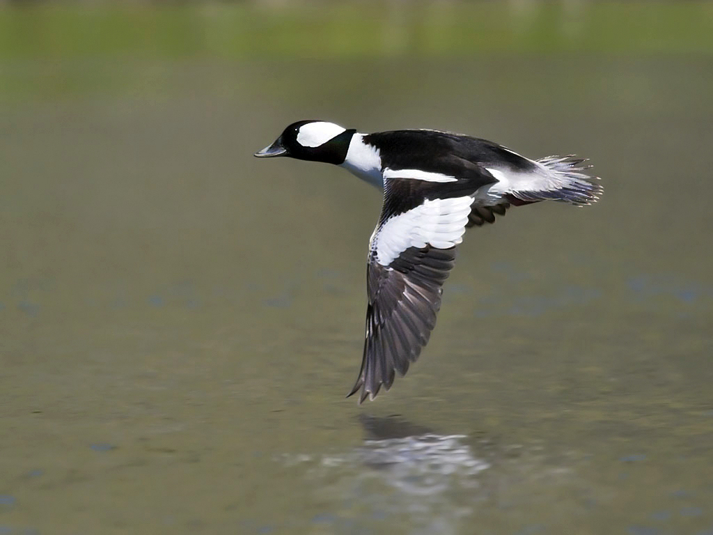 A male Bufflehead flying over Lopez Lake, San Luis Obispo, California, USA.